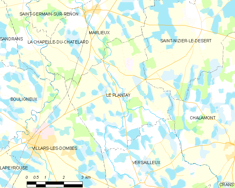 Map of French commune: Le Plantay Map commune FR insee code 01299.png